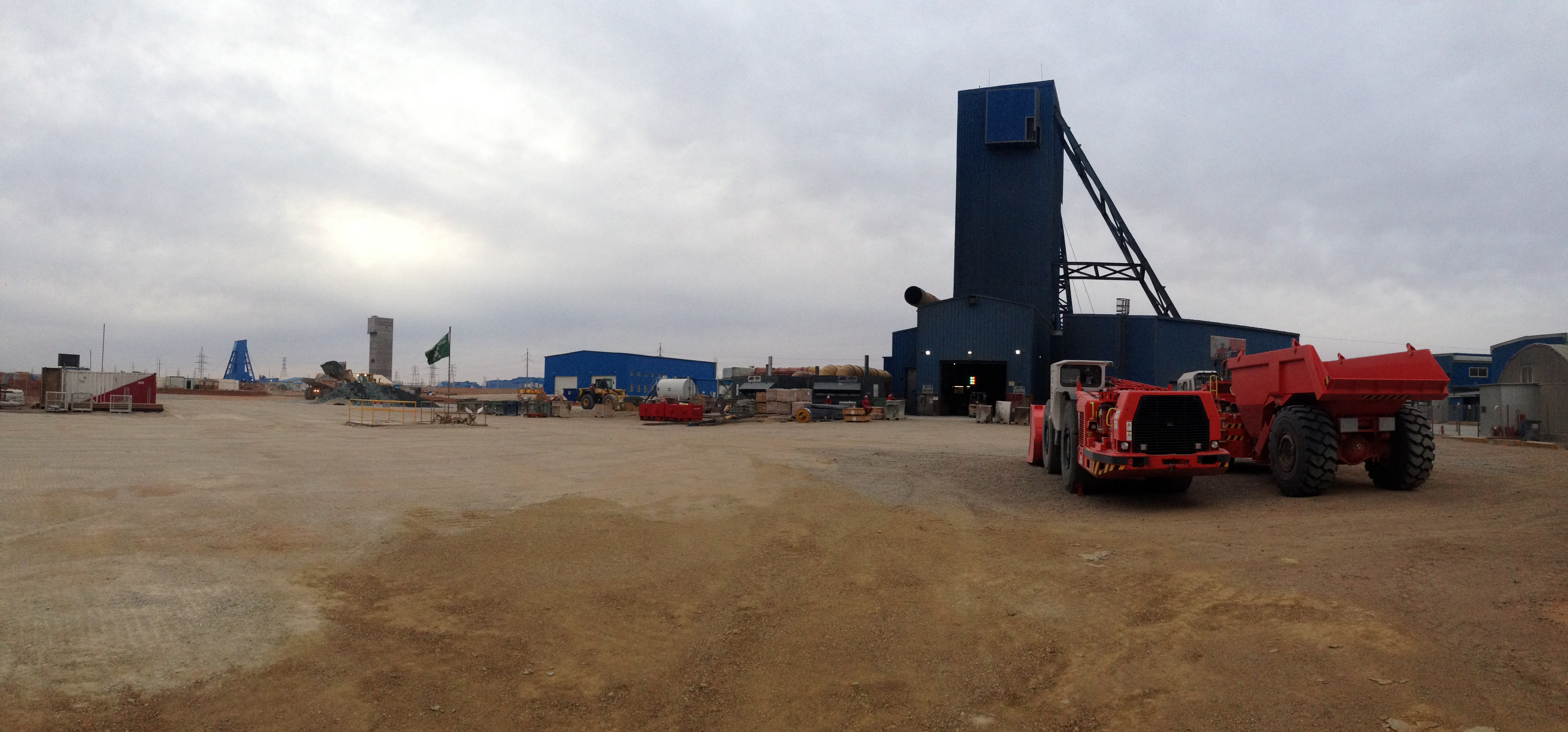 From right to left, Shaft #1, #2, and #5 at Oyu Tolgoi, a copper mine in extreme southern Mongolia